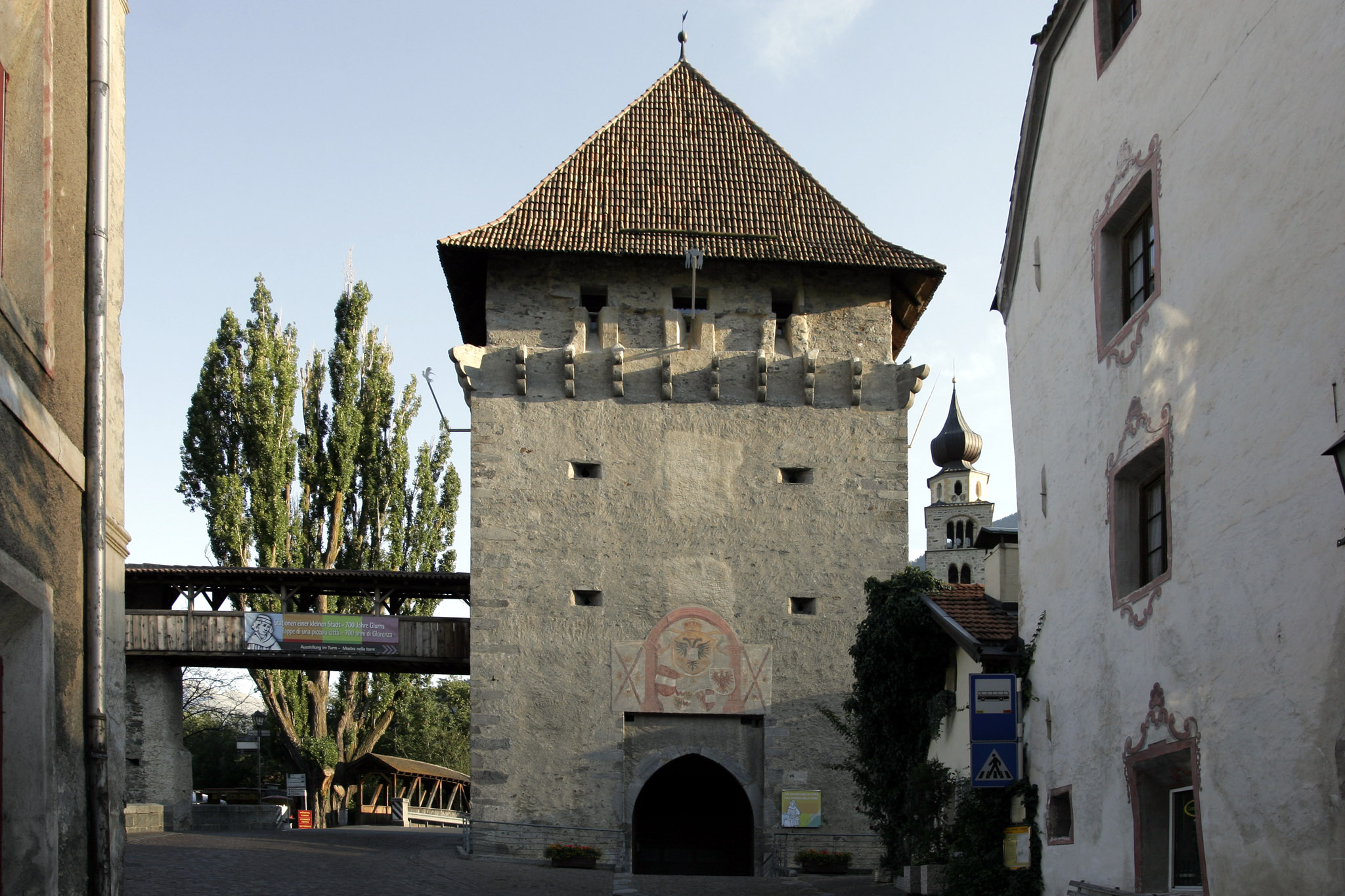 The gate (Tauferer Gate) of the city of Glurns (South Tyrol)